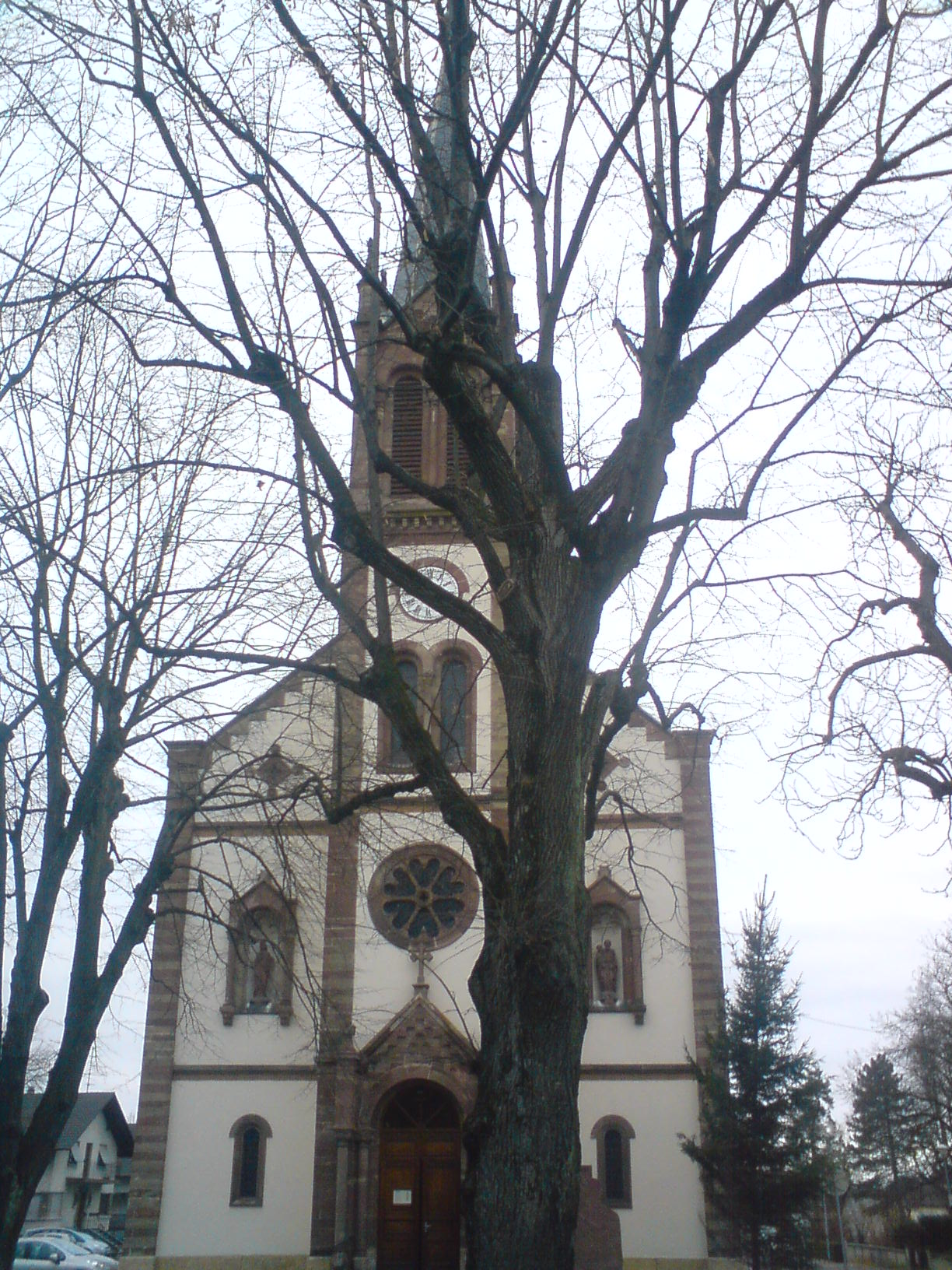 The church "Saint-Charles" in Saint-Louis Bourgfelden.